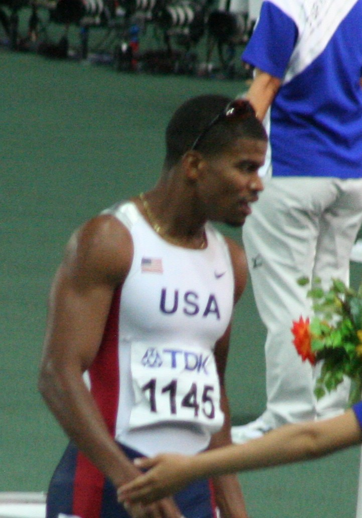 World Athletics Championships 2007 in Osaka - US 110 metres hurdles runner Terrence Trammell after his semifinal